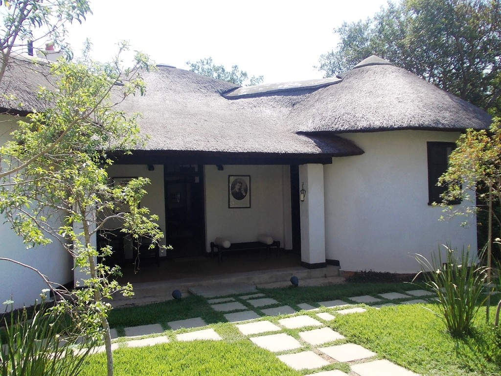 Originally known as the The Kraal, this home was built by the architect Herman Kallenbach. From 1908-1909, Kallenbach lived here with his friend, Mohandas Ghandi.